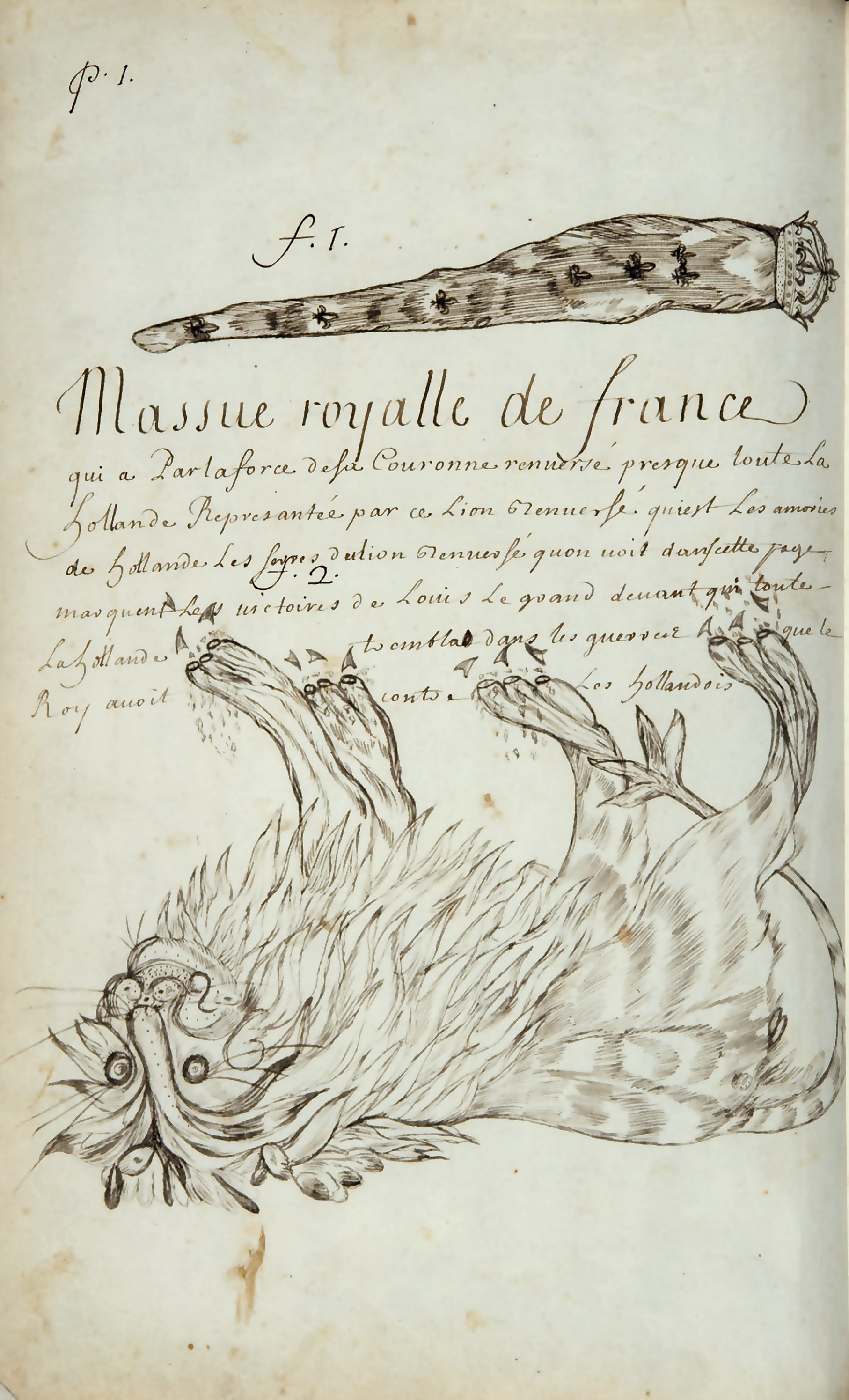 Royal mace of France, which has by the force of its Crown overthrown almost all Holland, represented by this overturned lion, which is the coat of arms of Holland. The claws of the overturned lion seen on this page mark the victories before whorn all Holland trembled in the wars that the King waged against the Dutch.